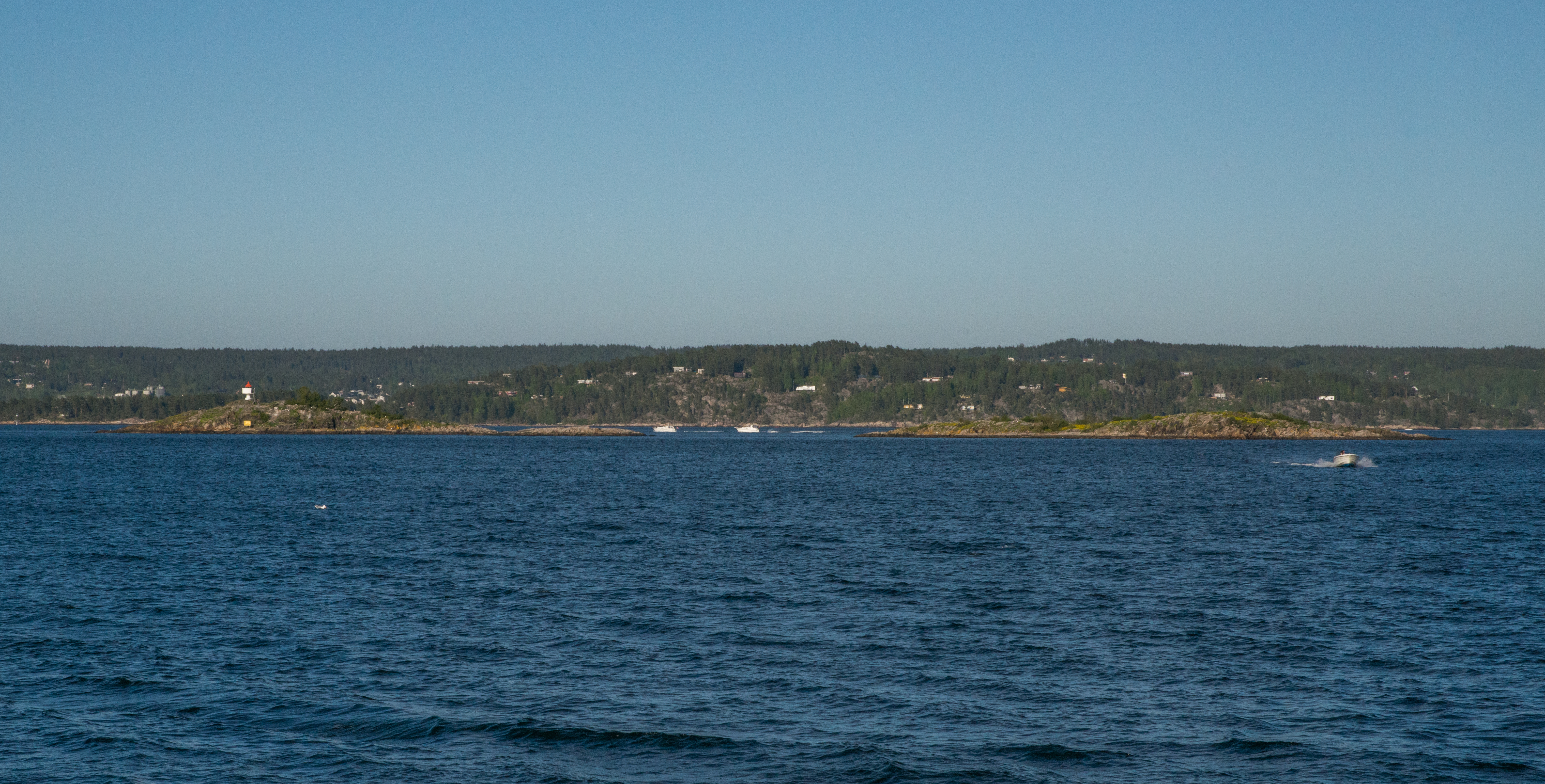 Sundbyholmene nature reserve, Oslofjord, Røyken, Norway